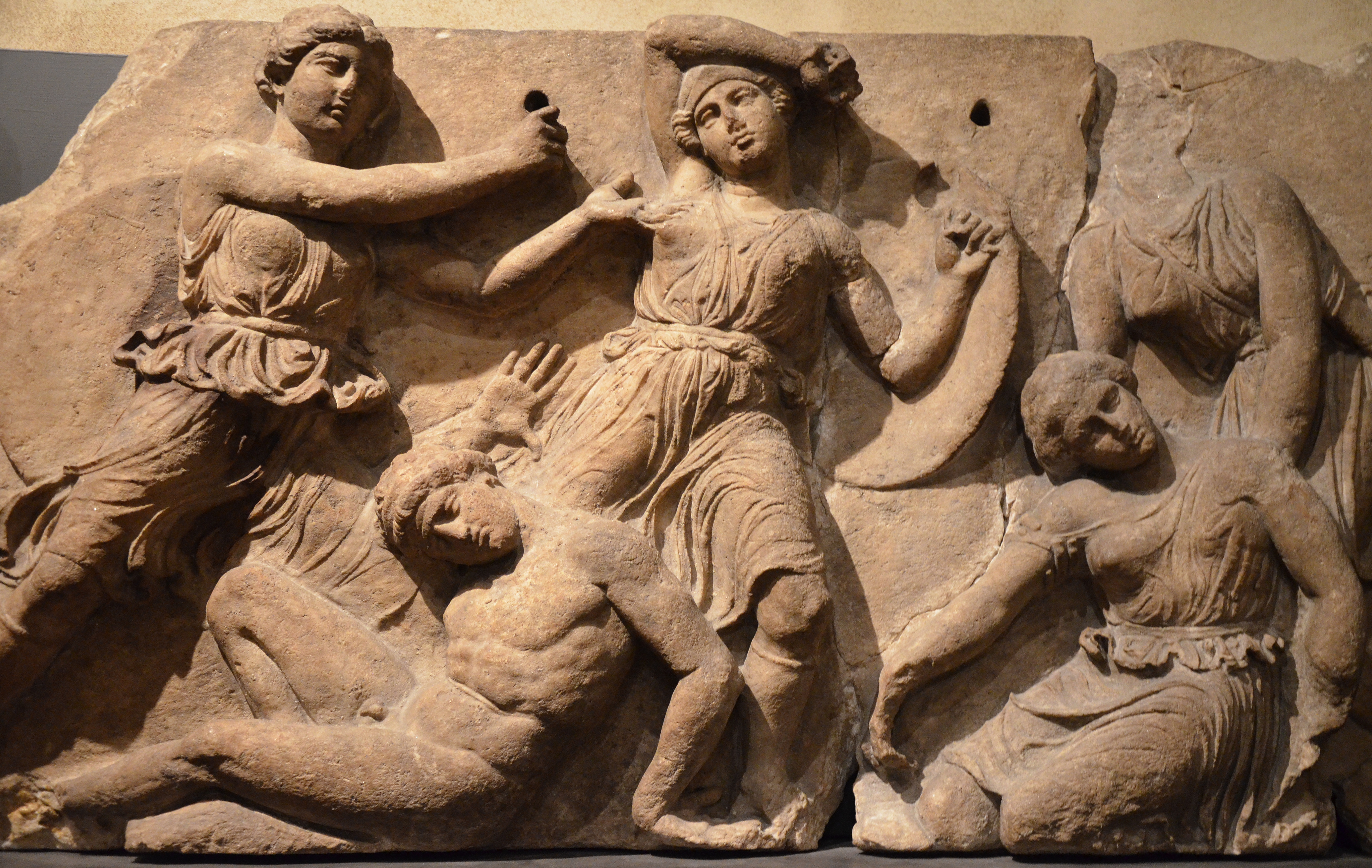 On the south and south east sides of the frieze are arranged a series of slabs showing the battle fought by Herakles and the Greeks against the Amazons, the mythical race of warrior-women.